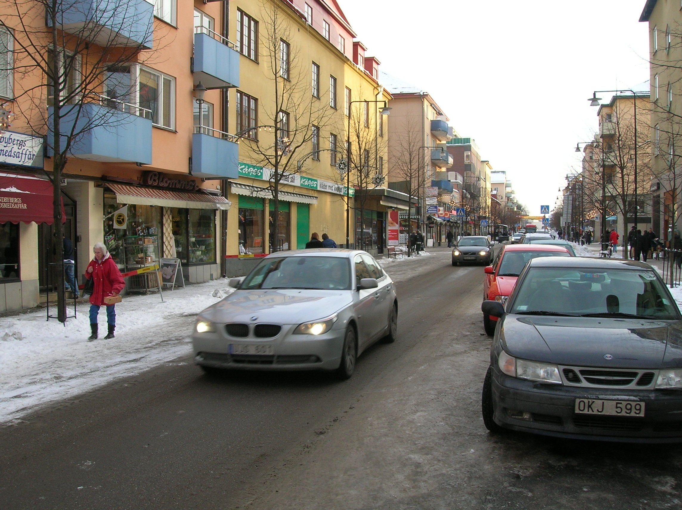 Shops at Sturegatan in Centrala Sundbyberg, Sundbyberg municipality, Sweden